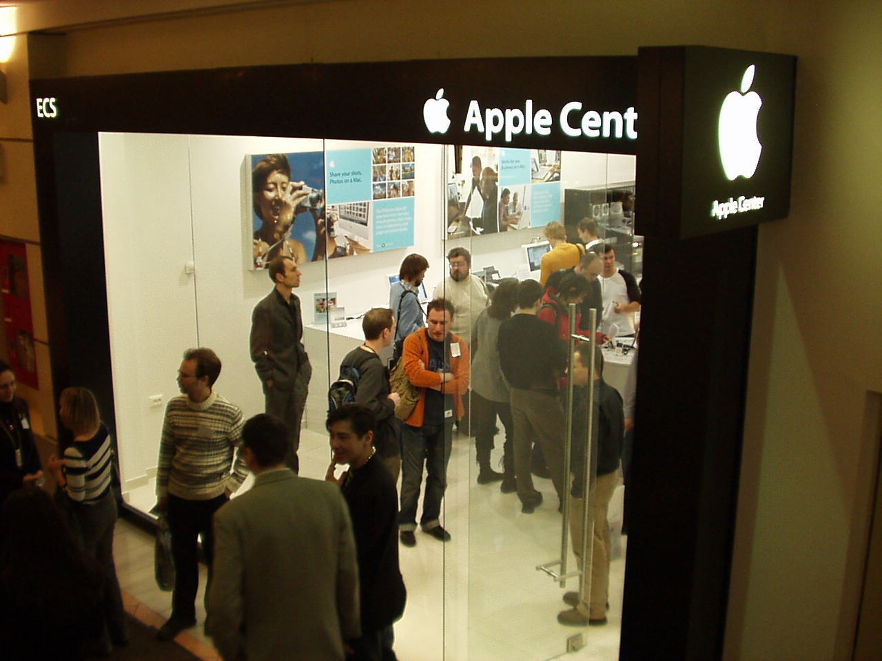 First official Apple Center shop in Moscow, Russia (Atrium trade center) is being presented to press on 29.11.2005